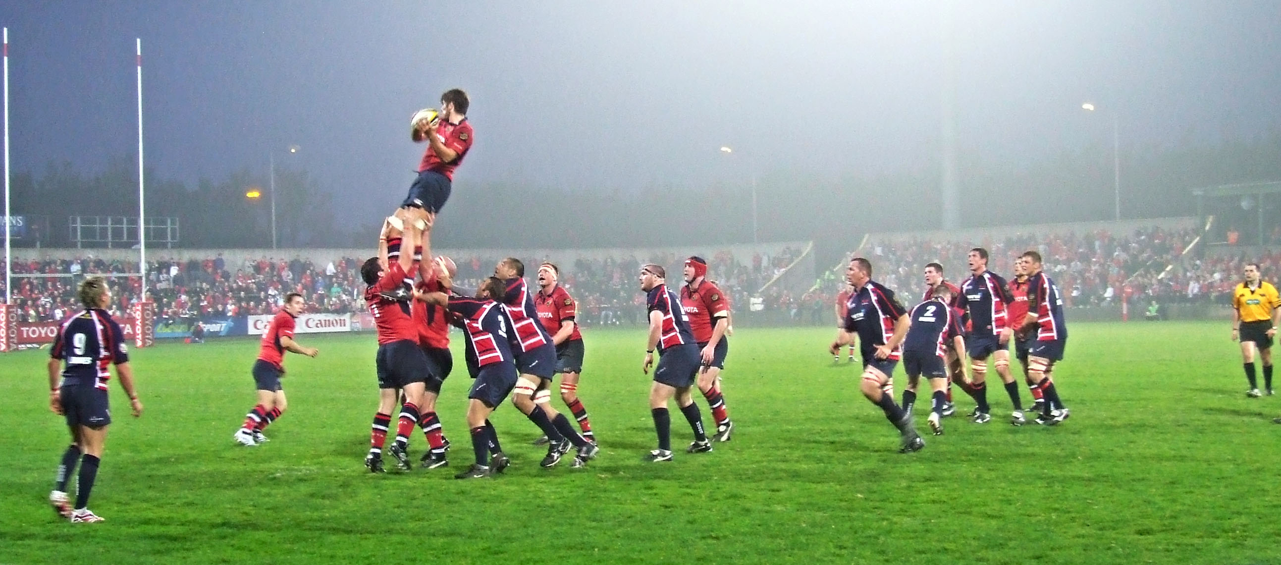 Donncha O'Callaghan (Munster Rugby) takes a Munster lineout in the game against the Scarlets in Musgrave Park.